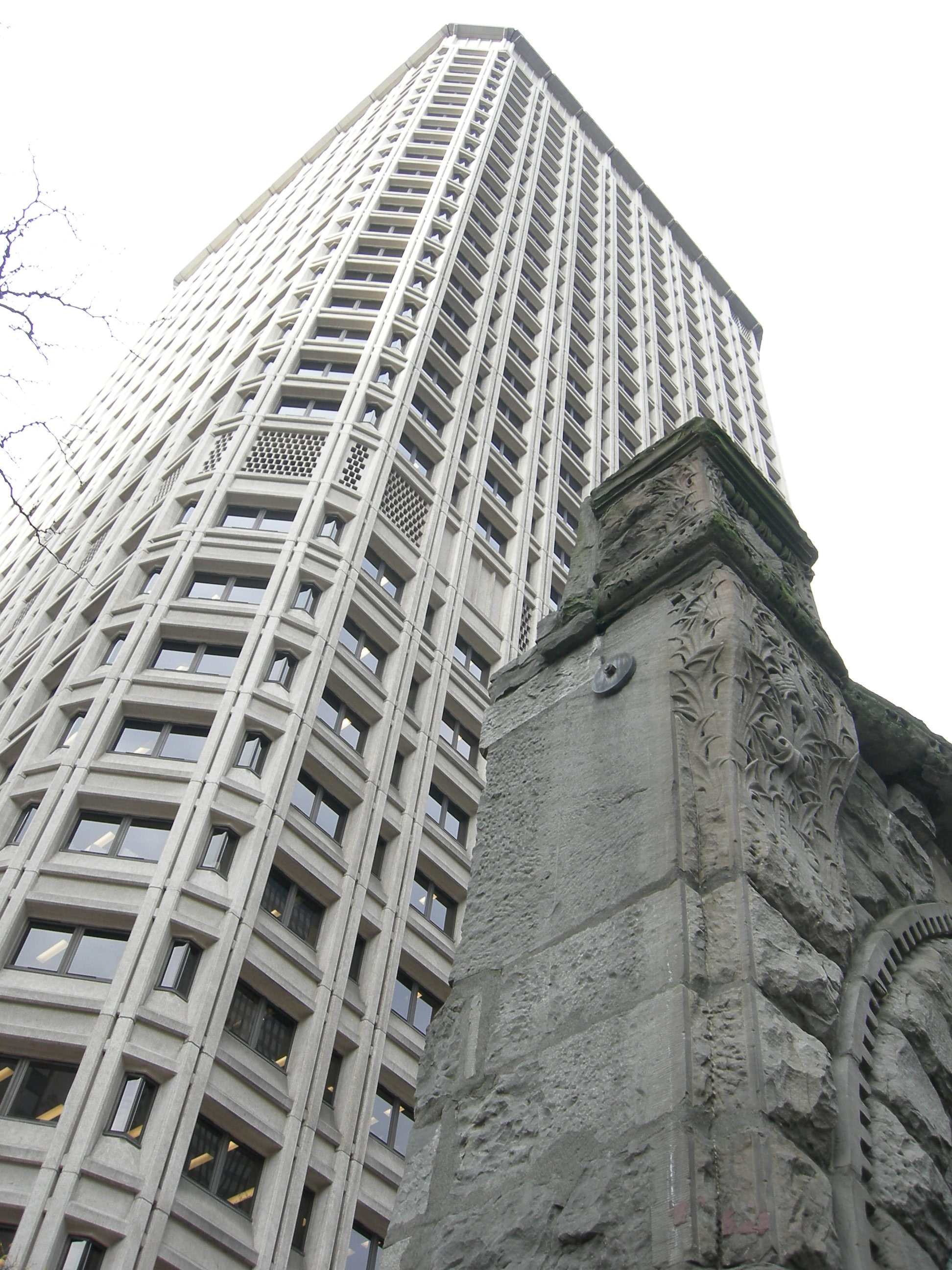 Henry M. Jackson Federal Building, Seattle, Washington, USA. In the foreground is part of the main arch of the Burke Building that used to stand here, one of a few remaining remnants of that building on the Federal Building grounds.